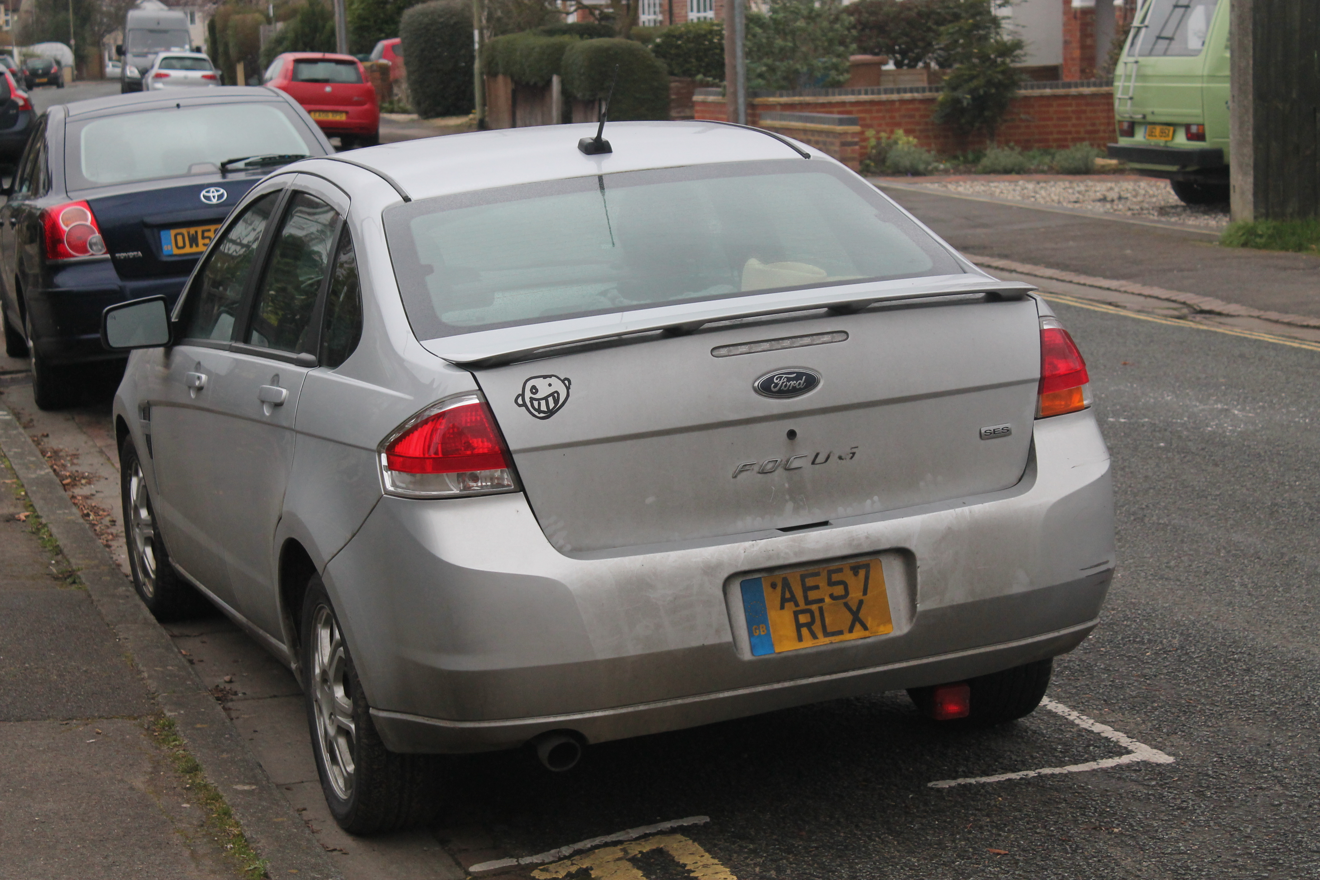 I do like interesting imports like this one. Most I see are those JDM minivans. This is a North American model second generation Ford Focus 4 door sedan, built in Wayne, Michigan USA in 2008. It was imported here in 2010. There can't be an awful lot of these over here- interesting the owner's gone to the trouble of shipping it all the way over, rather than just buying a car here. Not sure if I prefer the look of this or the standard UK Ford Focus. The vehicle details for AE57 RLX are: Date of Liability 01 09 2014 Date of First Registration 31 05 2010 Year of Manufacture 2008 Cylinder Capacity (cc) 1800cc CO₂ Emissions 0 g/km Fuel Type PETROL Export Marker N Vehicle Status Licence Not Due Vehicle Colour GREY Vehicle Type Approval Not Available